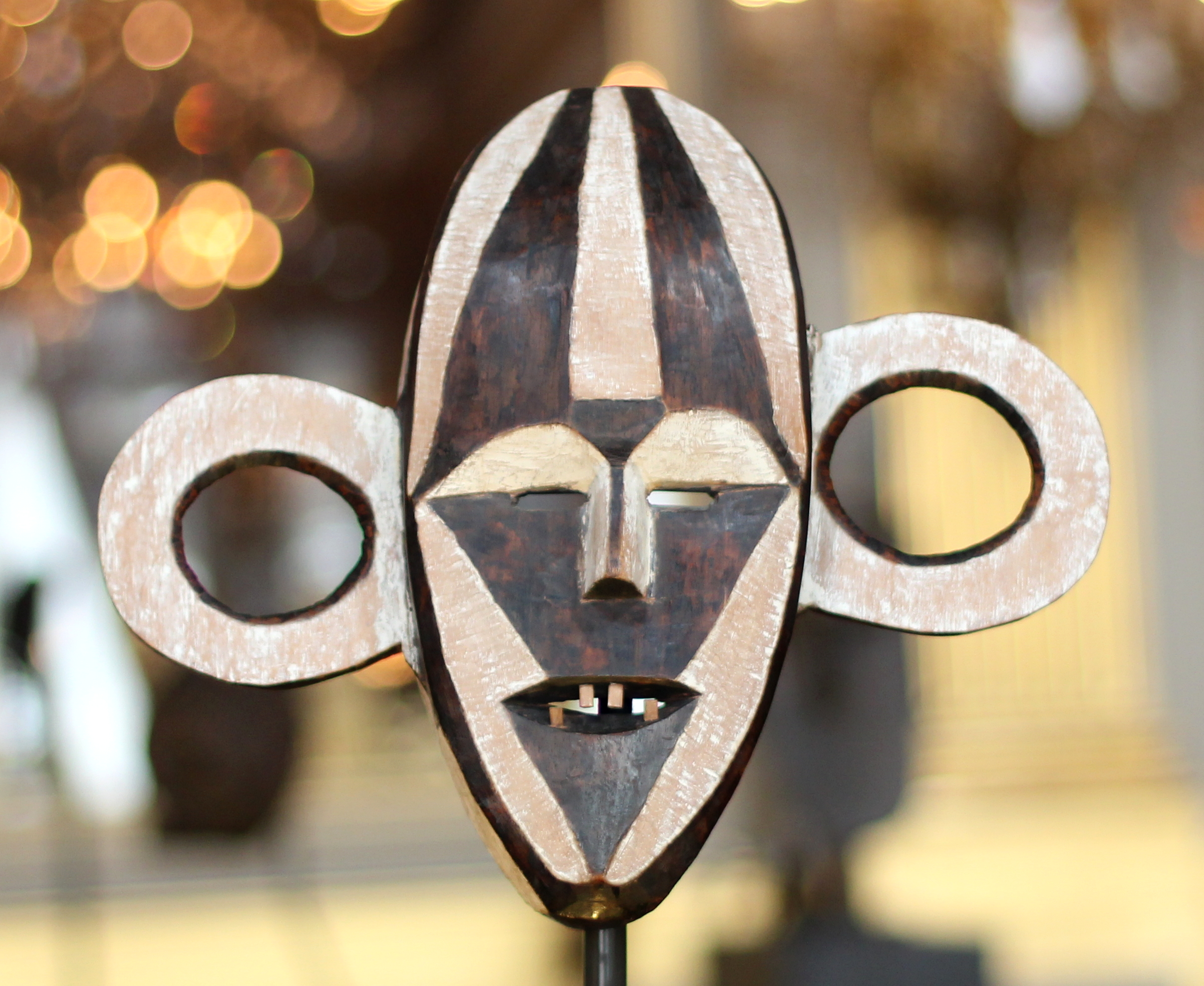 Pongdudu mask Wood (Alstania congensis), pigments Boa, Monzali chiefdom, Bokapu clan, Bambili post - RDC Acquired by A. Hutereau between 1909 and 1912 and gift to the Museum from him; registrated in 1913